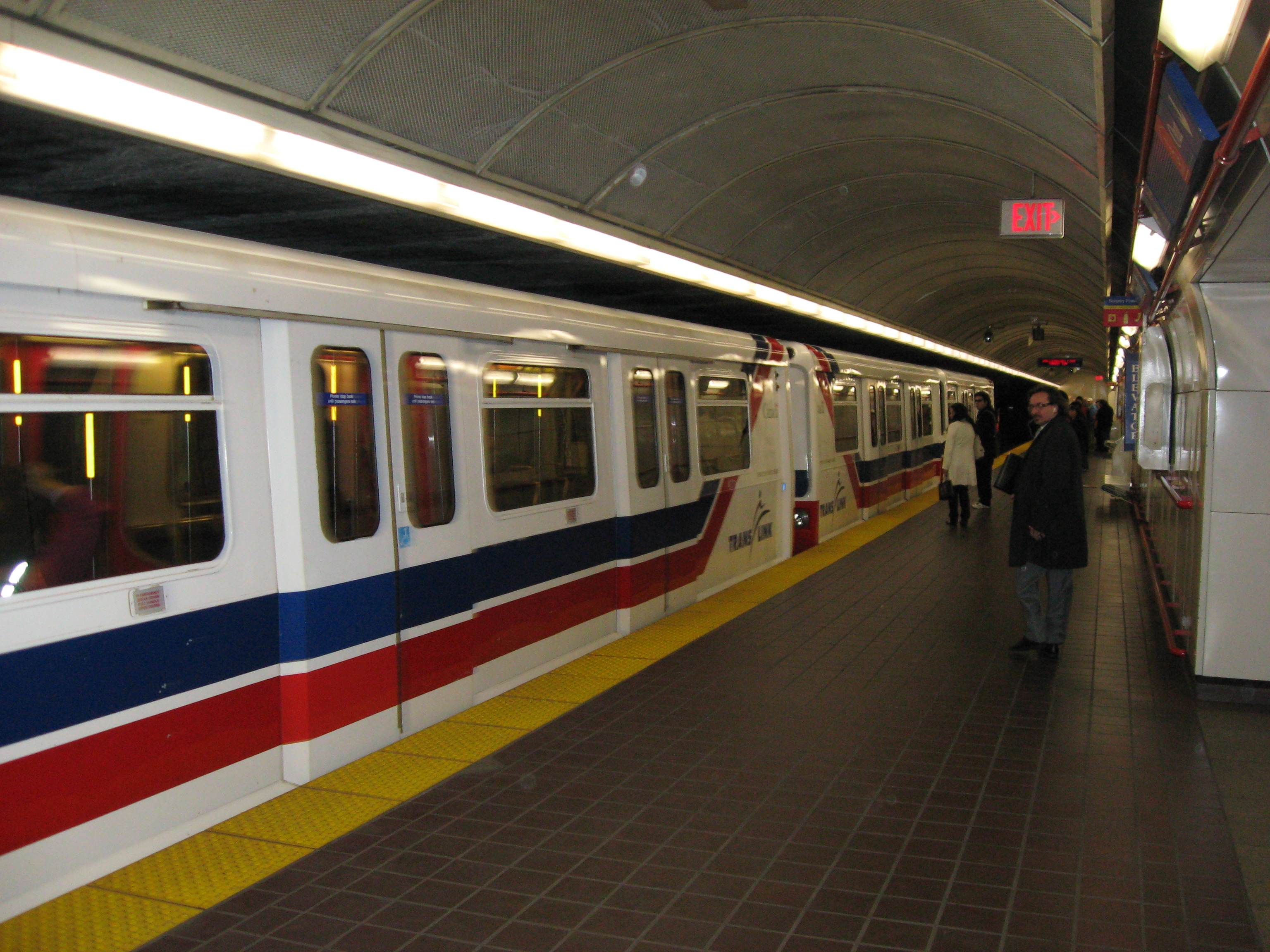 Eastbound platform circa noon.